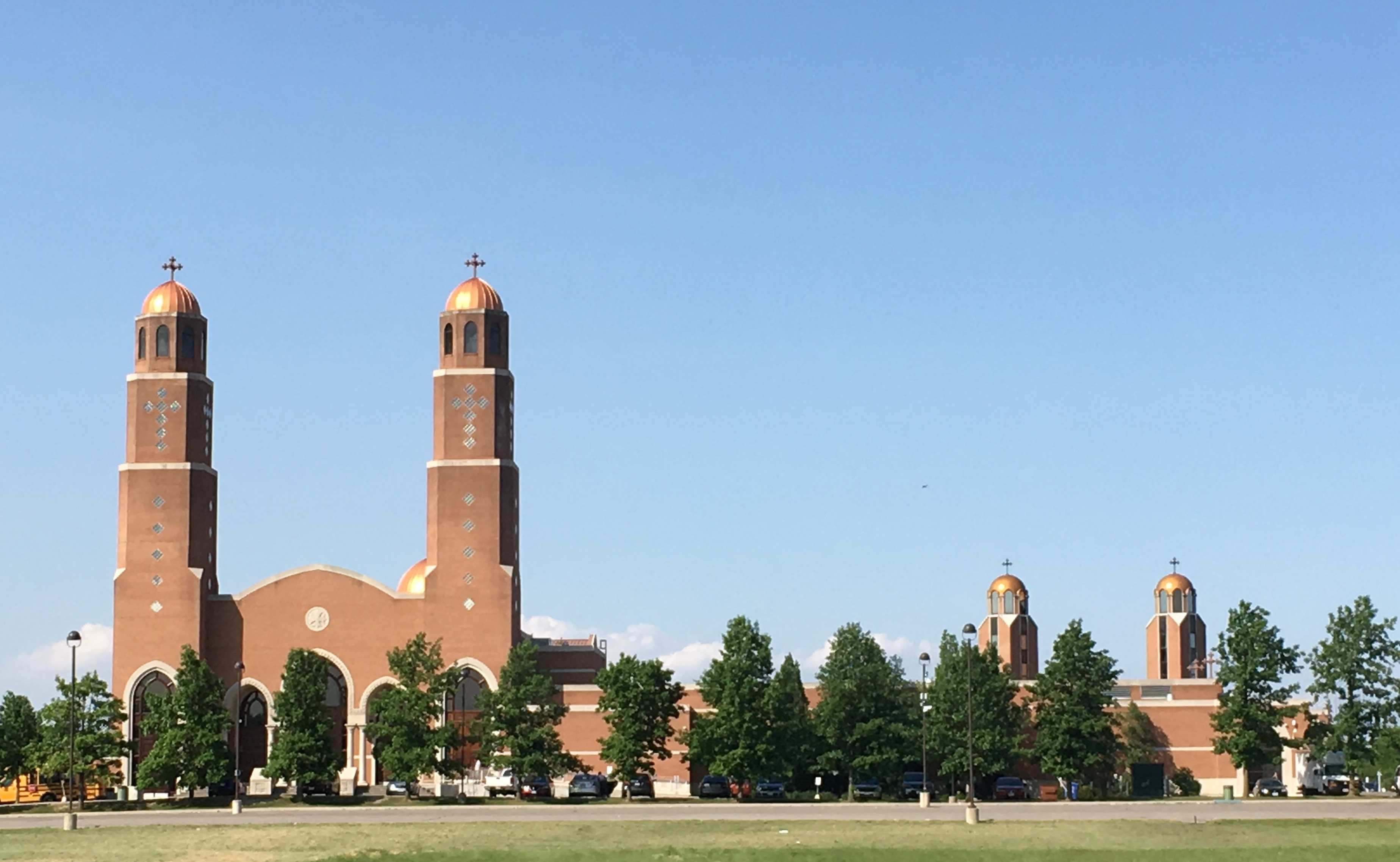 Church of the Virgin Mary and St. Anathasius, and the Canadian Coptic Centre, Mississauga, Ontario